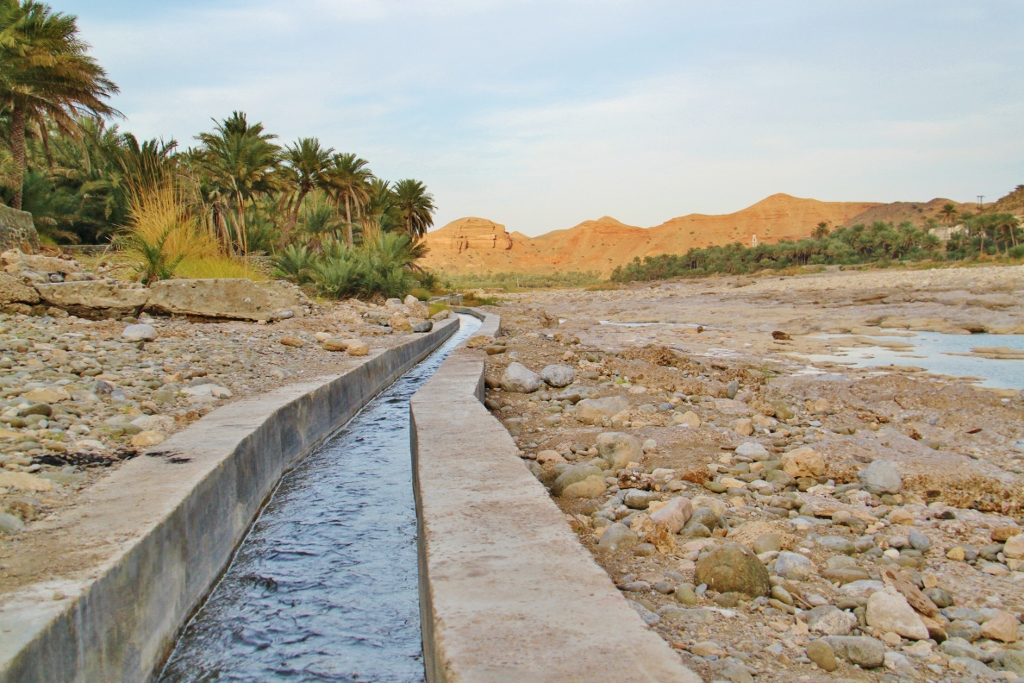 الزراعة في عمان3